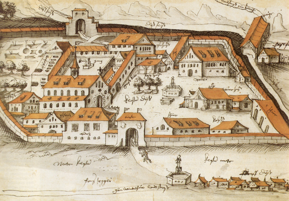 Töss convent - Winterthur / Switzerland